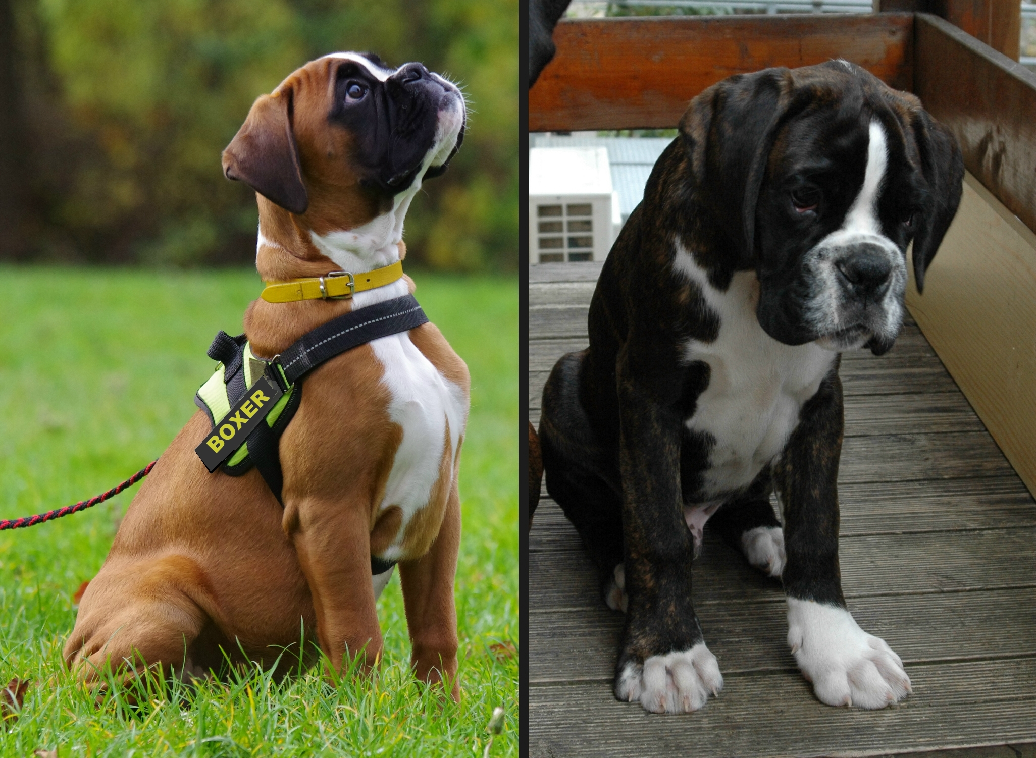 This are the two allowed colors of German Boxers! Left: Fawn / Right: Brindle